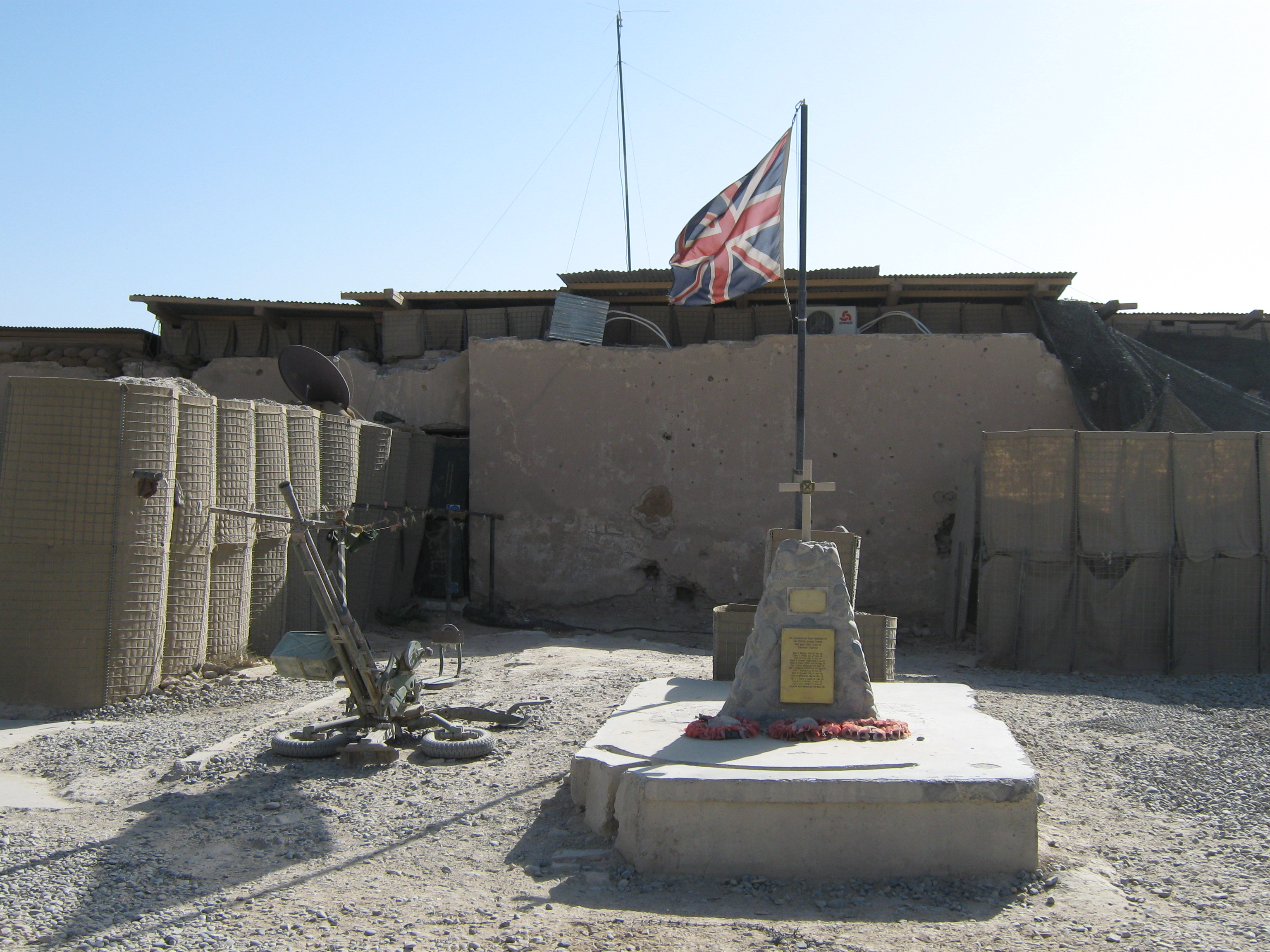 British Armed Forces Garmsir District memorial at Forward Operating Base Delhi, Garmsir, Afghanistan. Plaque on memorial says: "To commemorate those members of the British Armed Forces that gave their lives in Garmsir District".